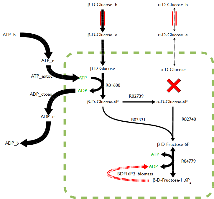 Example of FBA on a metabolic network after a non lethal gene deletion.